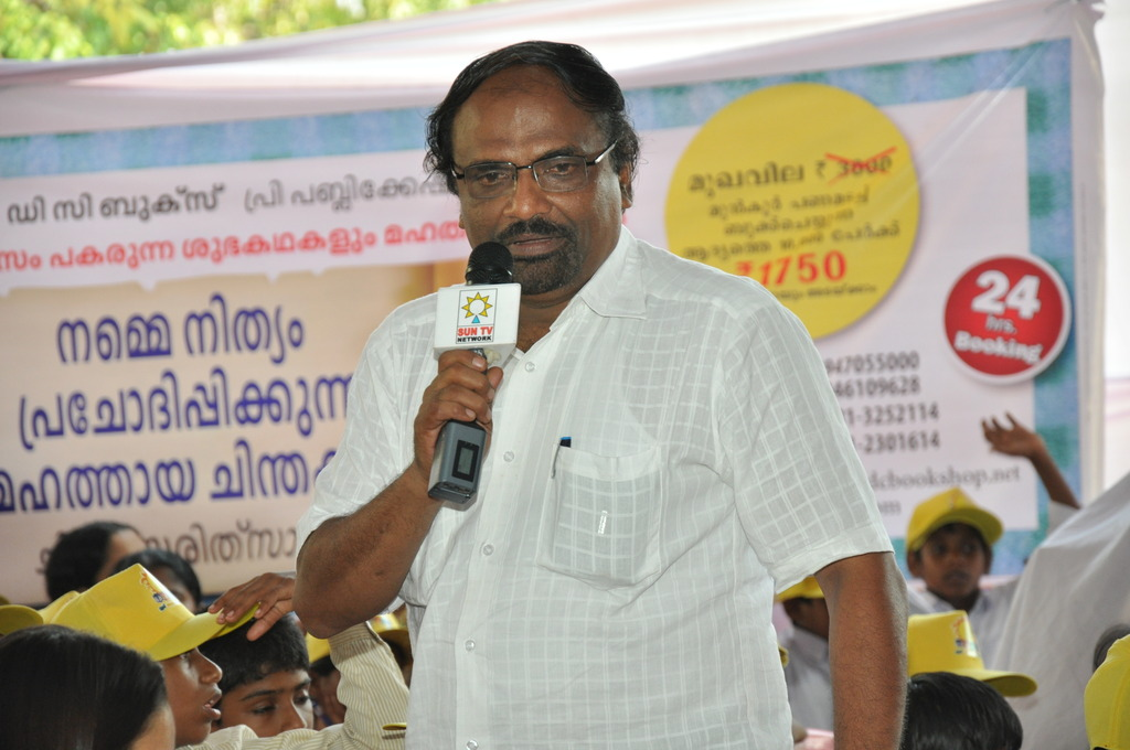 This media file is uploaded with Malayalam loves Wikimedia event - 2. TM ABRAHAM at dcbookfest kochi 2012